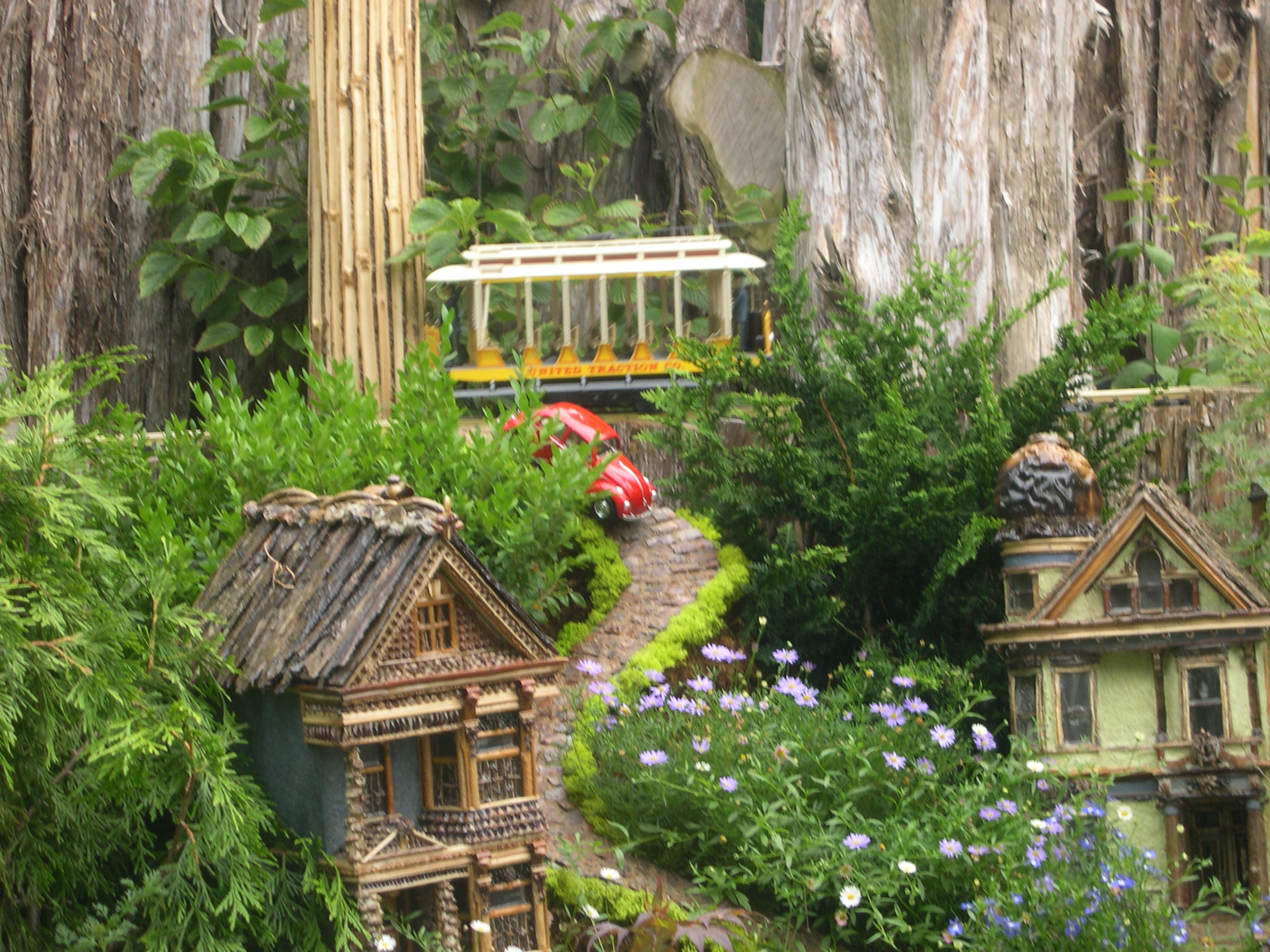 San Francisco train model at the Botanic Garden Chicago